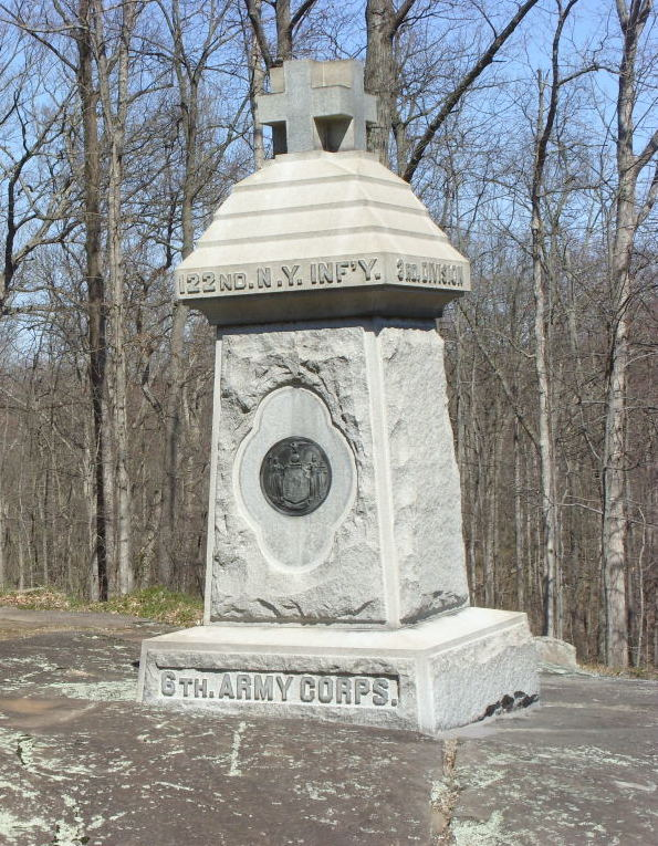 149th NY Infantry and 122nd NY Infantry Monuments, Culp's Hill.